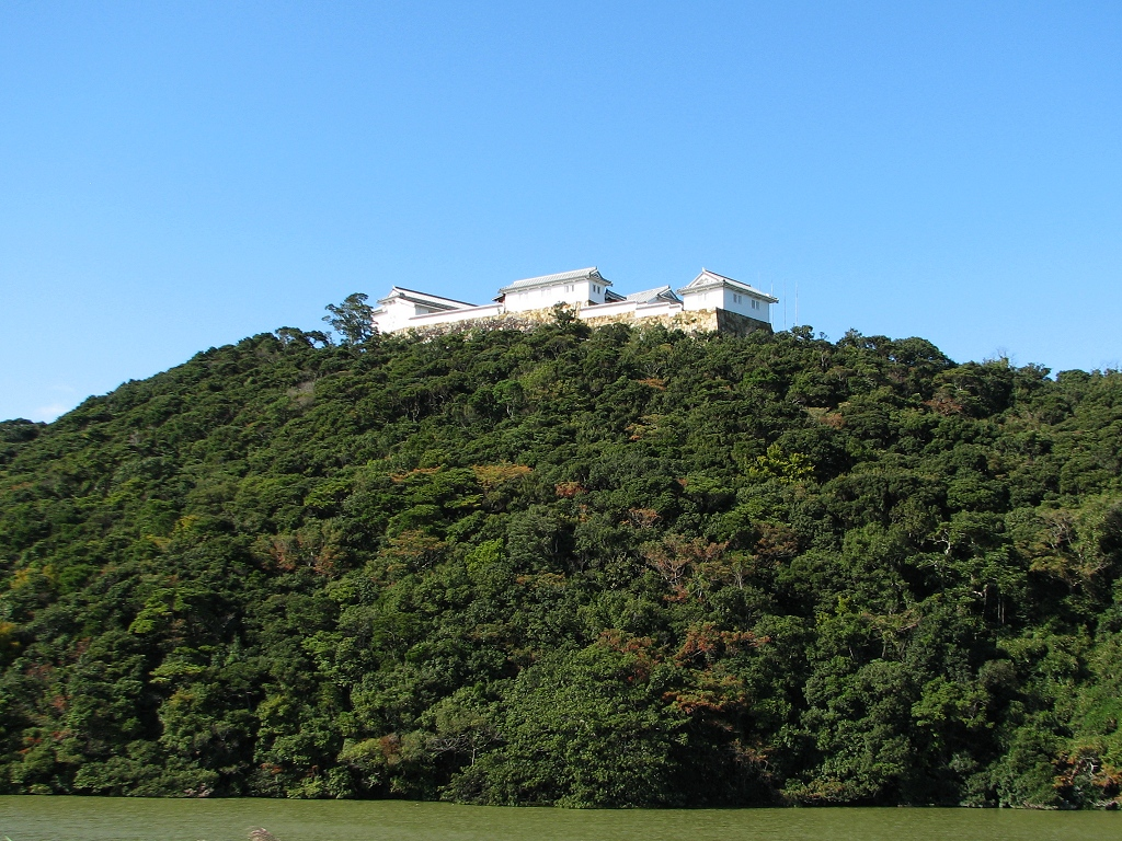 Tomioka Castle(富岡城(Tomioka Jyou)) in Reihoku Town,Kumamoto,Japan.